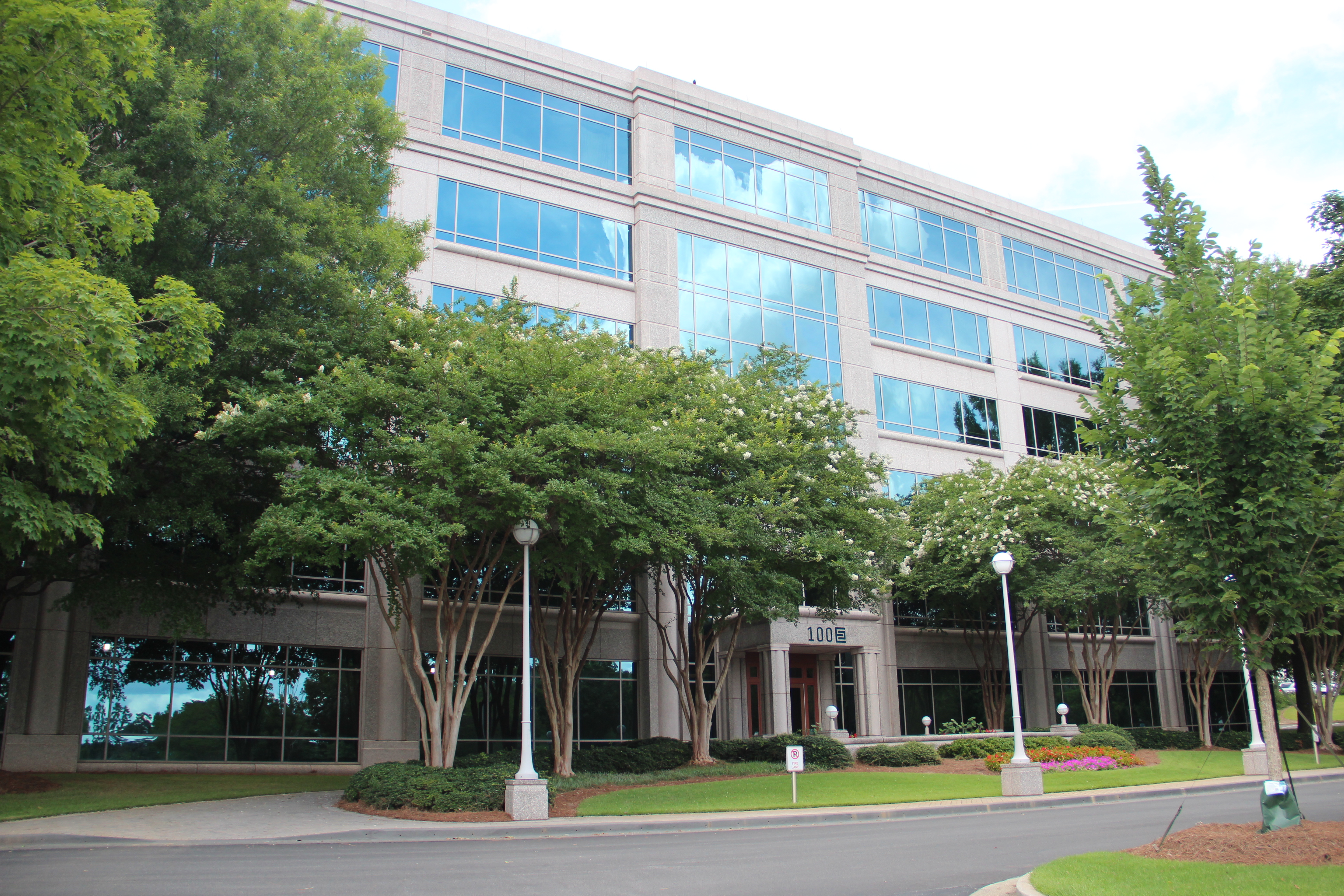 100 North Point Center, Alpharetta, GA